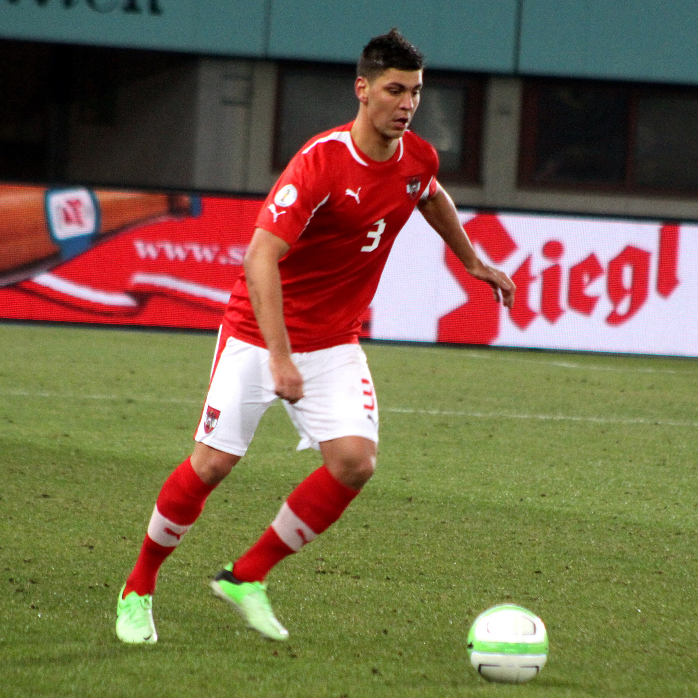 2014 FIFA World Cup qualification (UEFA), Group C: Austria national football team vs. Faroe Islands national football team 6:0 in the Ernst-Happel-Stadion in Vienna at 2013-03-22. – The photo shows Aleksandar Dragović (Faroe Islands).